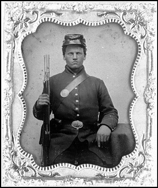 Portrait of a soldier of the American Civil War (between 1860 and 1865). Copy of an ambrotype.